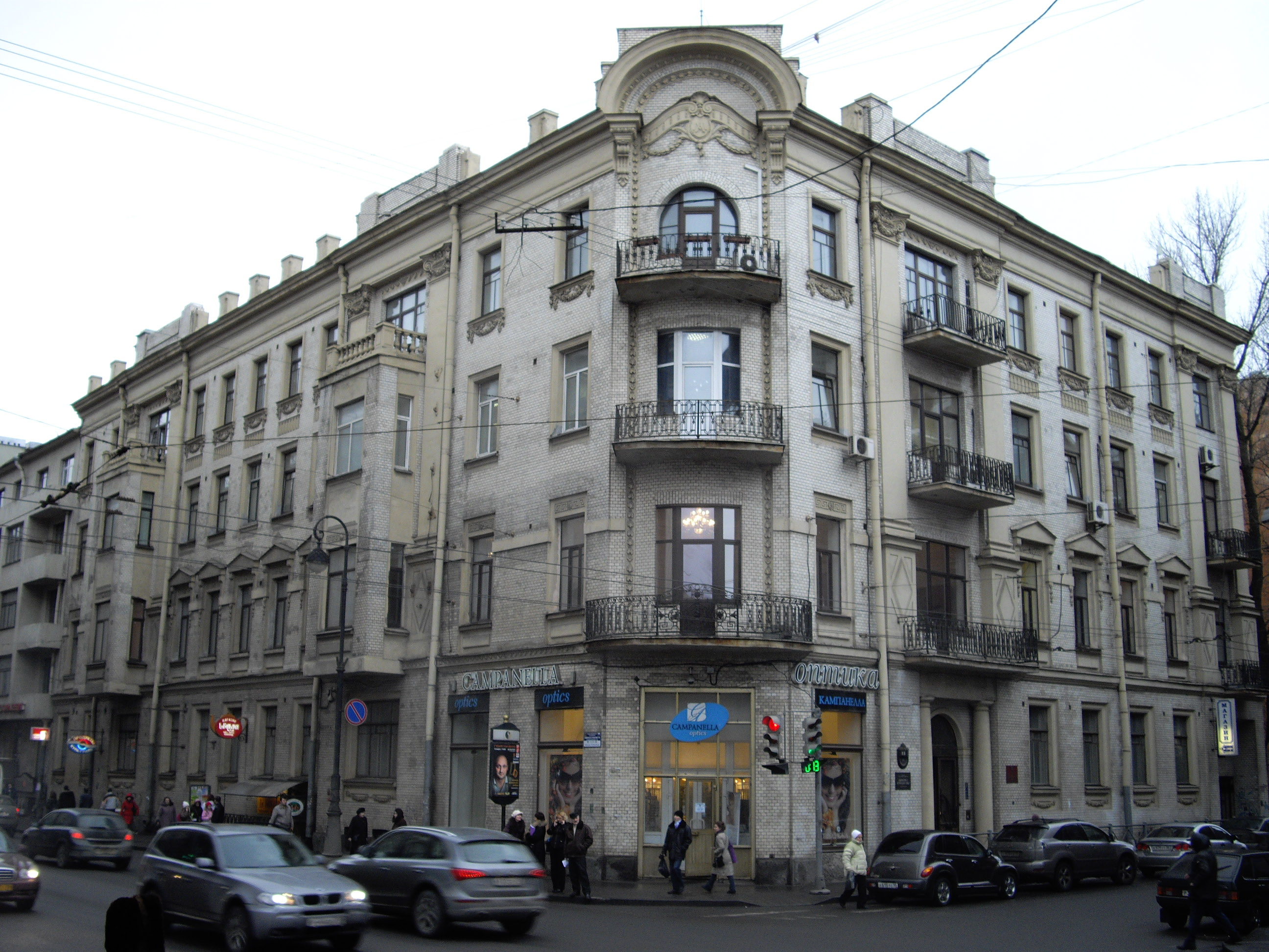 11, Bolshaya Monetnaya street and 22, Kamennoostrovsky Prospect, Saint-Petersburg, Russia. House of general Martynov, architect Alexander Khrenov, 1910-1912.